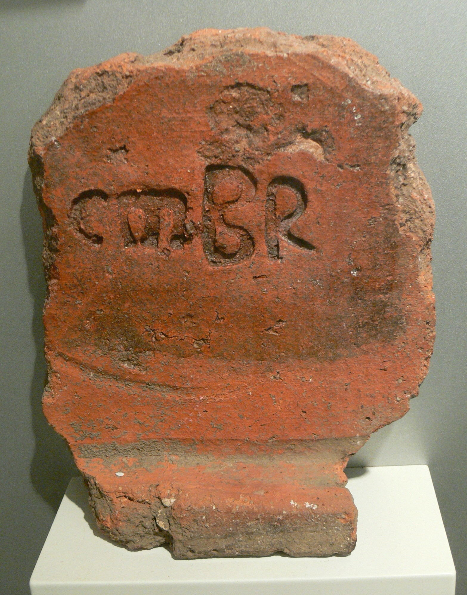 Archaeological museum Gunzenhausen ( Bavaria ). Brick stamp "C(ohors) III BR(acaraugustanorum)" from Theilenhofen castle.